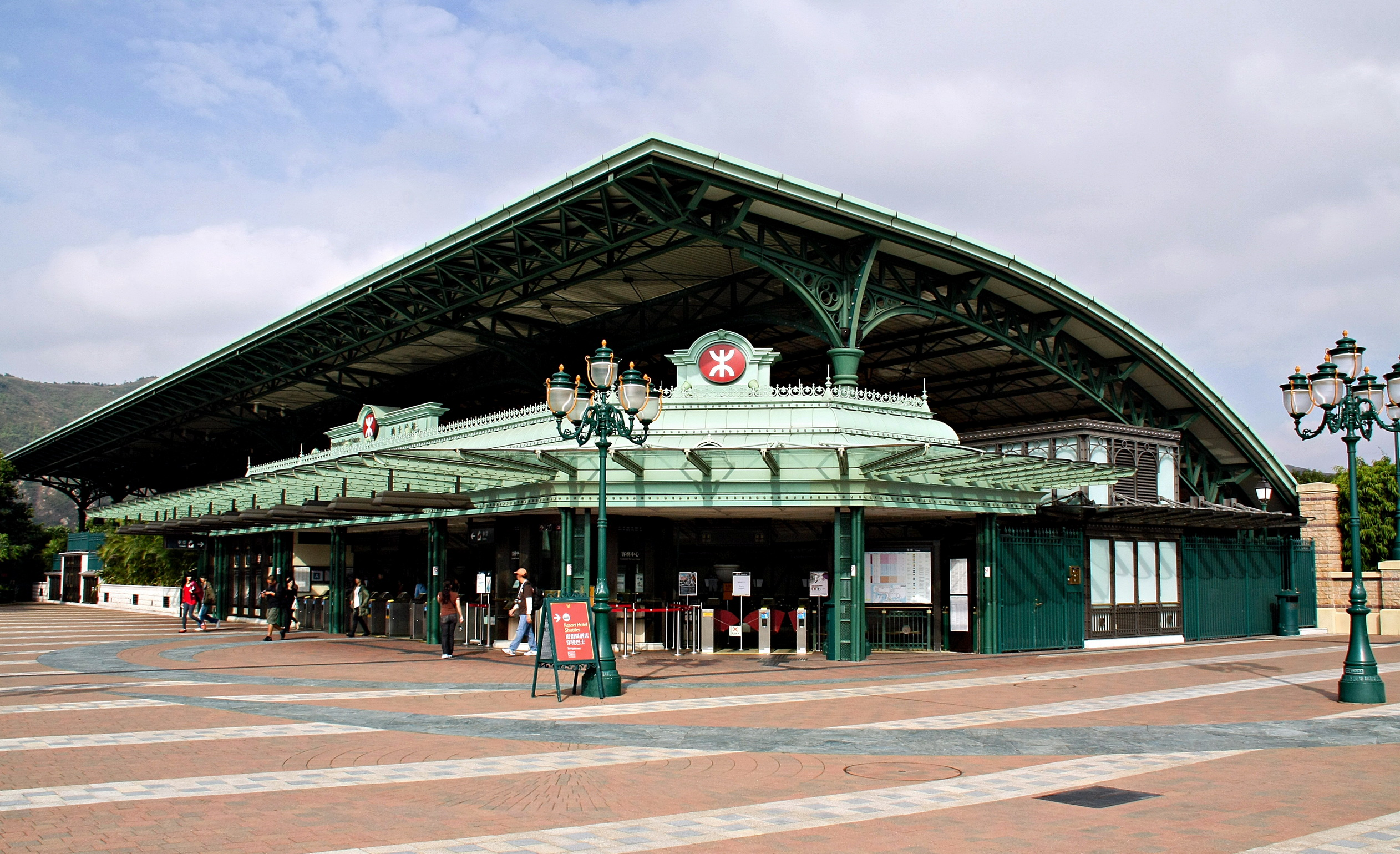 Disneyland Resort Station 迪士尼站